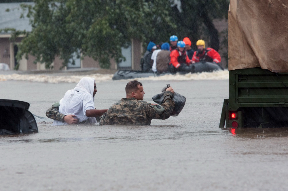 North Carolina Army National Guardsmen (NCNG) and local emergency services assist with the evacuation efforts in Fayetteville, N.C., on Friday, Oct. 08, 2016. Heavy rains caused by Hurricane Matthew have led to flooding as high as five feet in some areas. U.S. Army National Guard photo by Staff Sgt. Jonathan Shaw, 382nd Public Affairs Detachment/Released.